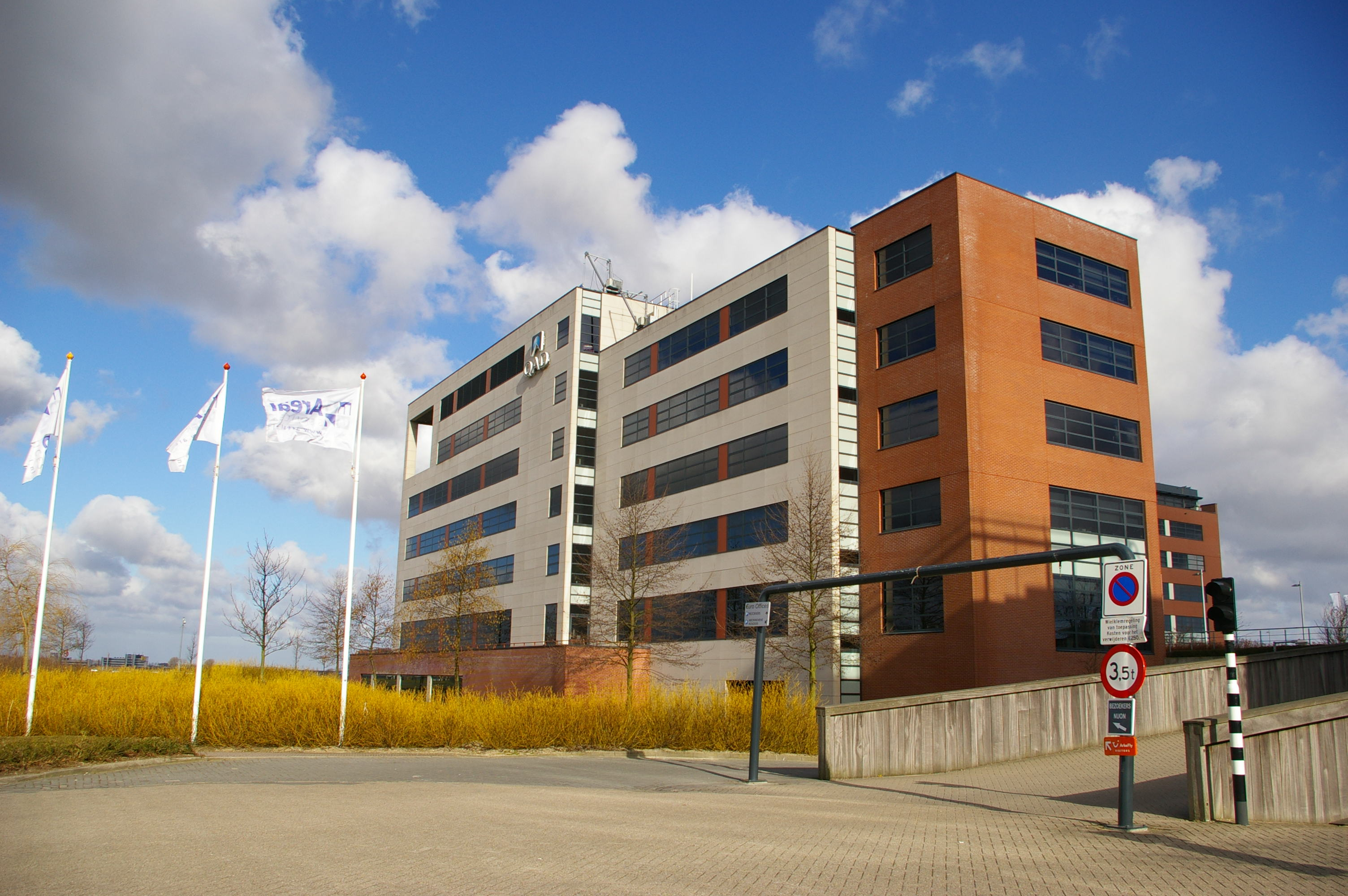 Office of Arke, Beech Avenue, Schiphol-Rijk, the Netherlands. Picture taken at the request of user WhisperToMe.